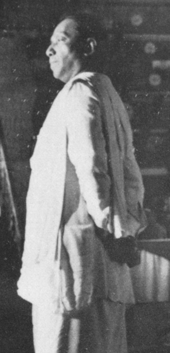 Gunapala Piyasena Malalasekera, president of the World Fellowship of Buddhists gives a speech at the 6th Buddhist council in Rangoon.